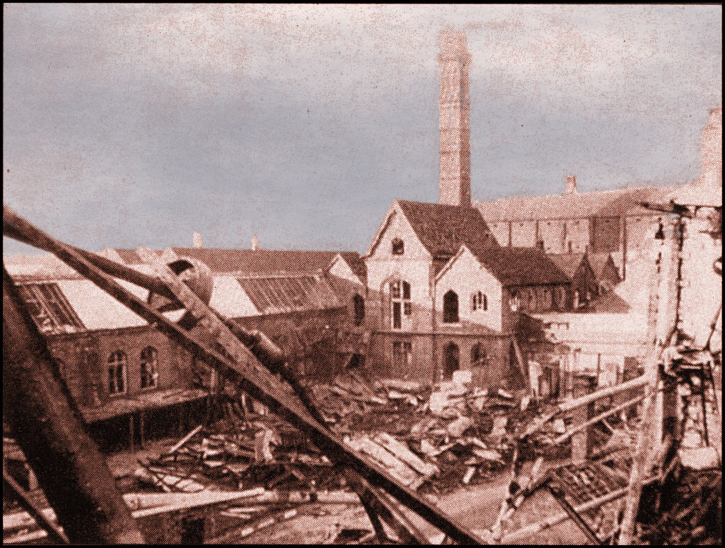 Coventry - J & J Cash, November 1940, WW2